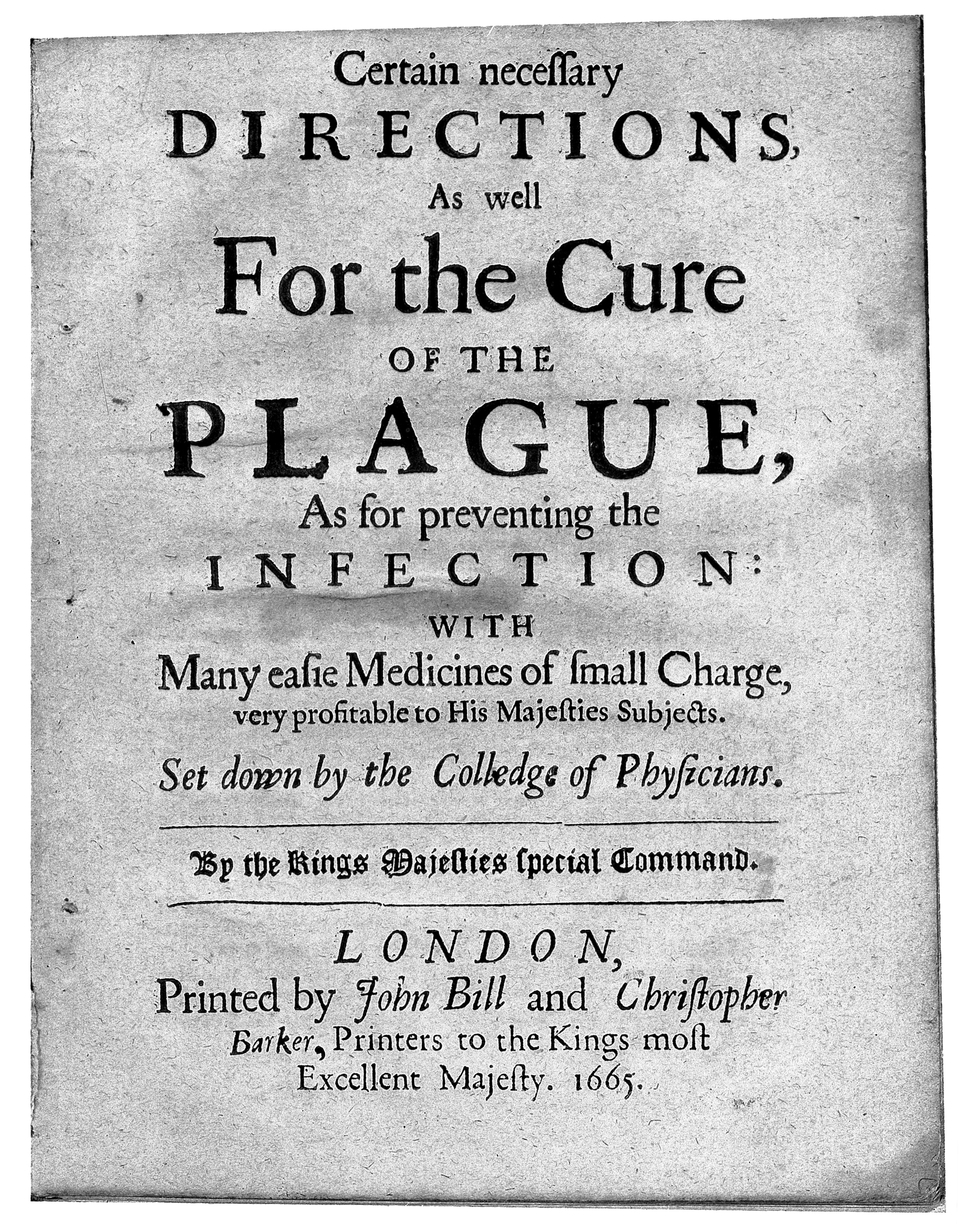 Royal College of Physicians Rare Books Keywords: Plague